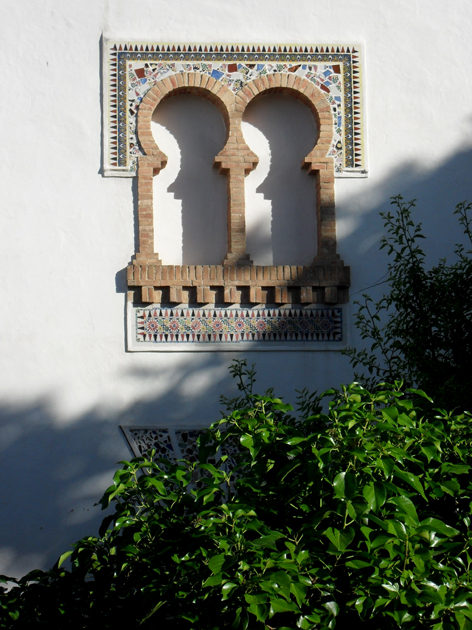 Pacorro's House, Beniajan (Murcia, Spain)